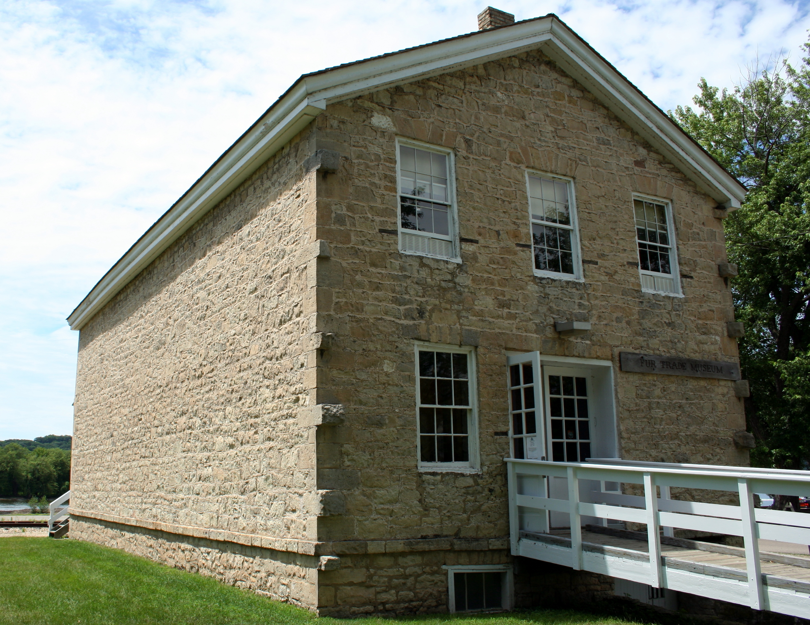 The historic Astor Fur Warehouse, now called the Fur Trade Museum, seen from the southeast (with Water Street and the Mississippi River behind the building) on Saint Feriole Island in Prairie du Chien, Wisconsin, United States